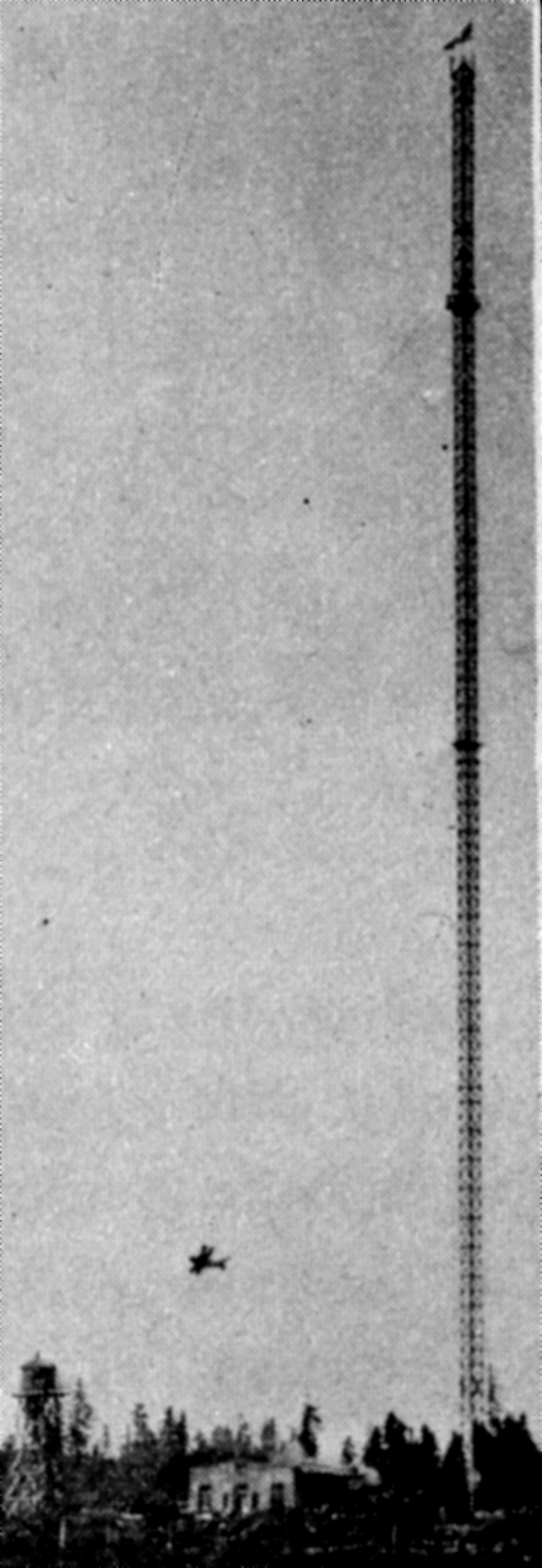 From: Oregon: Her History, Her Great Men, Her Literature. By John B. Horner, copyright 1919.